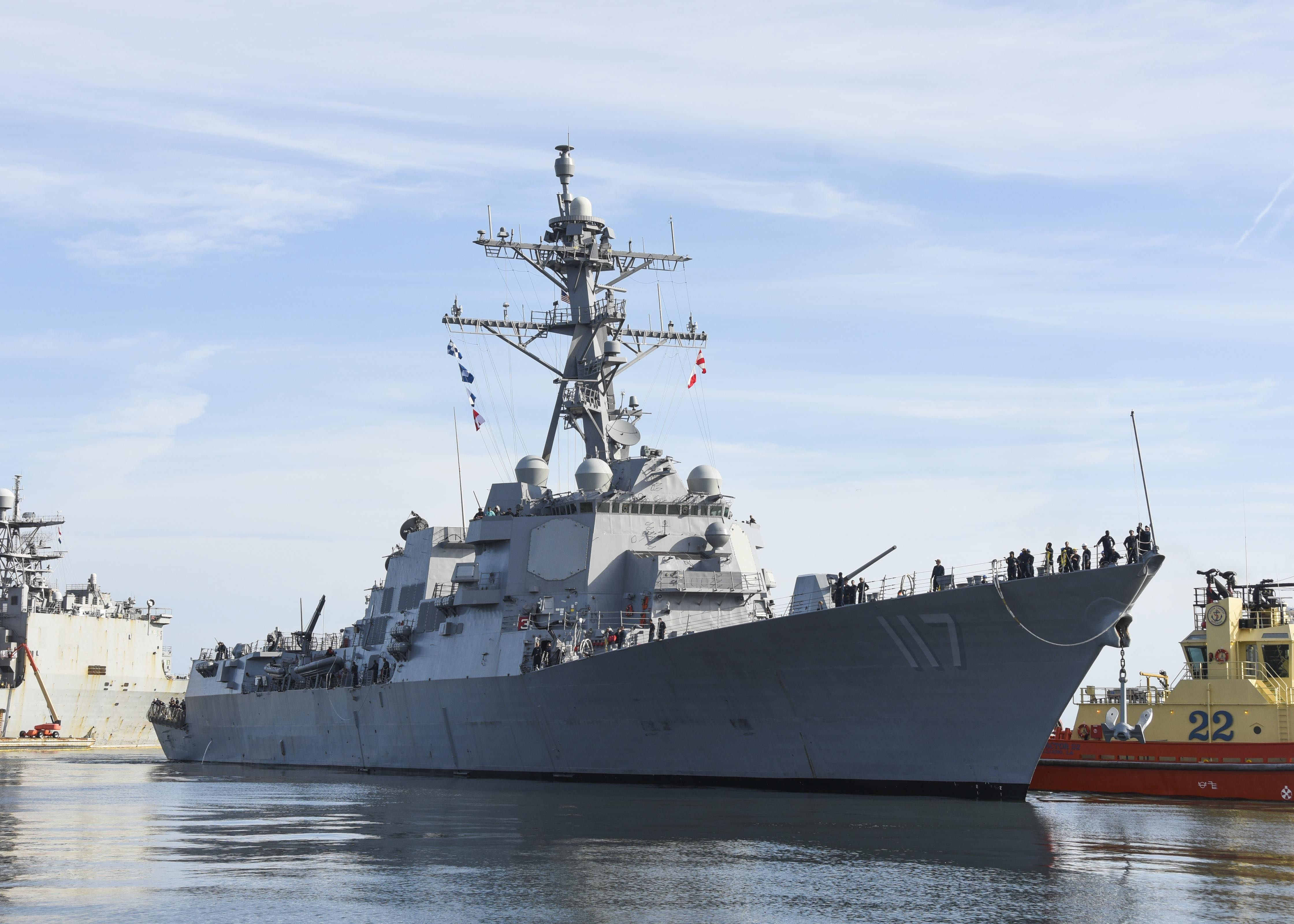 190731-N-ED185-1017 MAYPORT, Fla. (July 31, 2019) The Arliegh Burke-class guided-missile destroyer USS Paul Ignatius (DDG 117) prepares to moor at Naval Station Mayport. Paul Ignatius, the Navy’s newest Arleigh-Burke-class destroyer, was commissioned at Fort Lauderdale, Florida on July 27, 2019 and will call Naval Station Mayport its new home. (U.S. Navy photo by Mass Communication Specialist1st Class Brian G. Reynolds/Released)